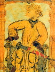 Tariq ibn Ziyad, muslim general who conquered Visigothic Spain; European miniature